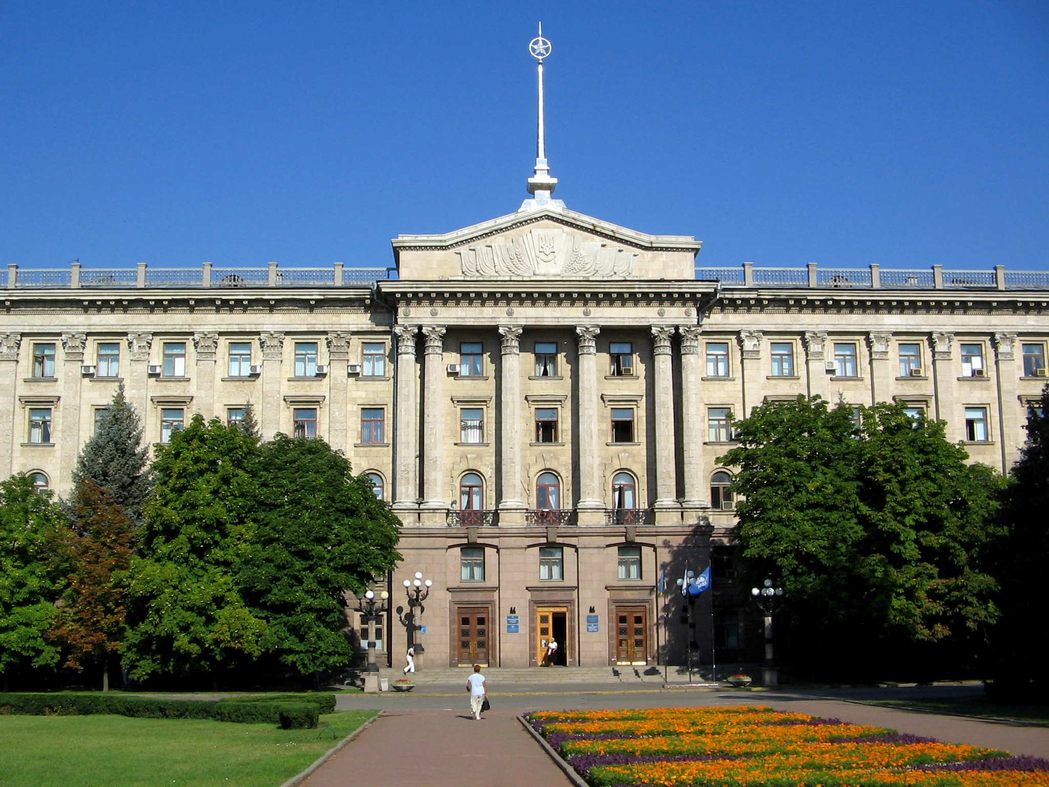 Mykolayiv city hall in 2006. The Soviet five-pointed star visible in this photo was removed in 2016.